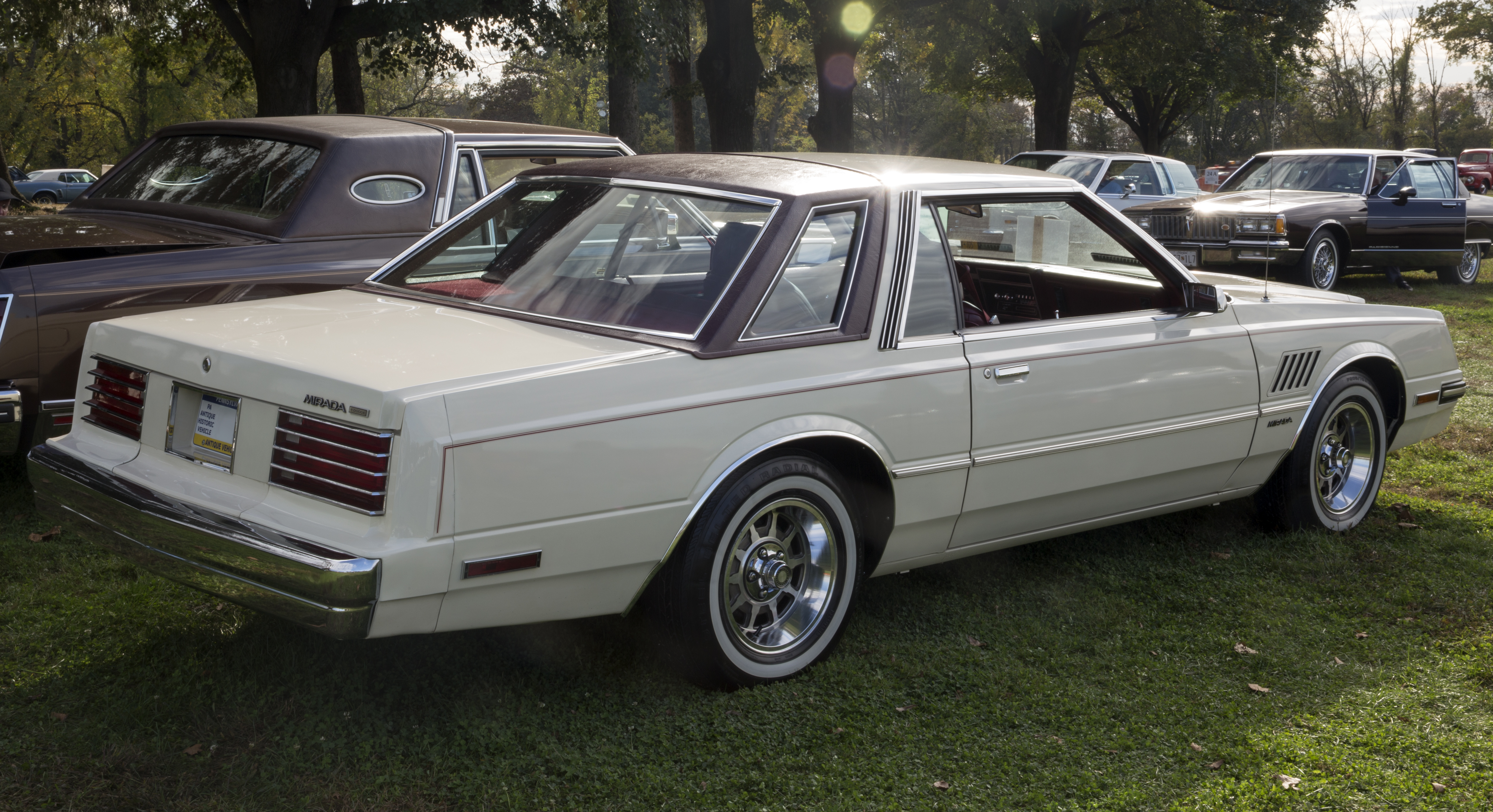 A 1980 Dodge Mirada in the show area at Hershey 2019. Eggshell White, original 10-spoke cast wheels, original owner. Delivered new on 27 May 1980 to Lelock Motors in Punxsutawney, Pennsylvania. The 318 V8 delivers a whopping 120hp.